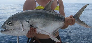 Caranx caninus taken off Ecuador